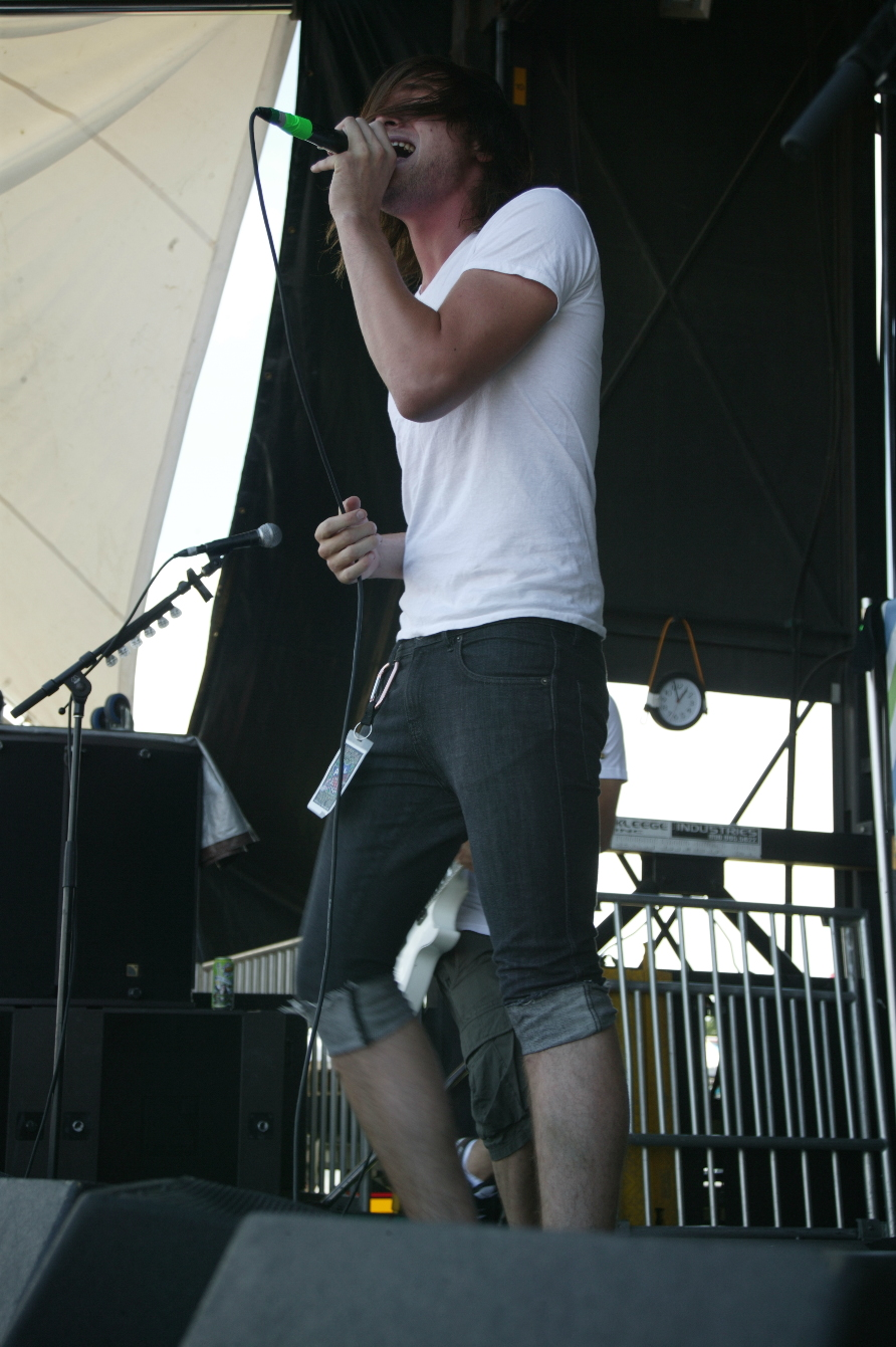 Cute Is What We Aim For, performing at Las Cruces as part of Warped Tour 2007.